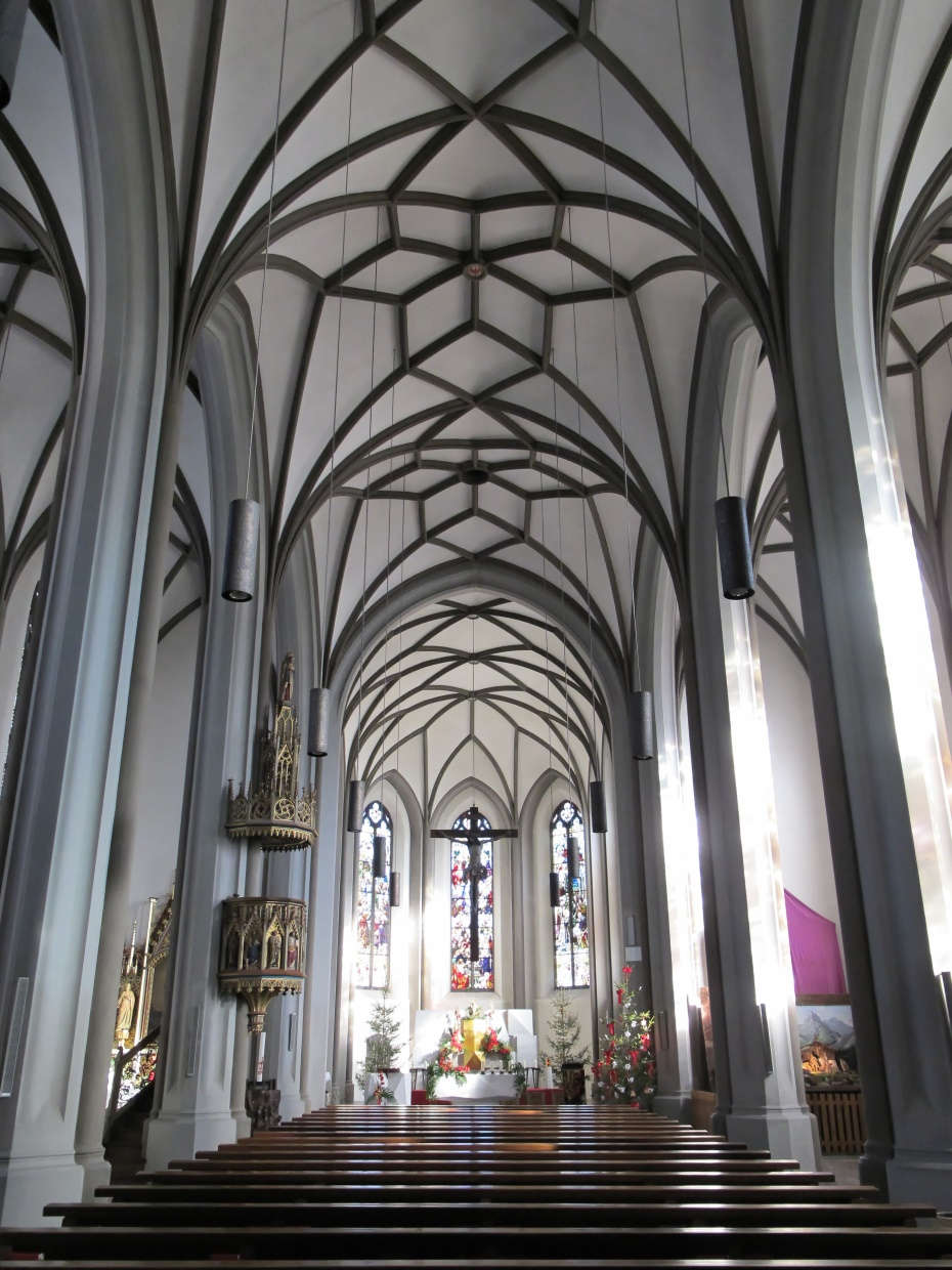 Imst, church "Mariä Himmelfahrt" (Assumption), inside